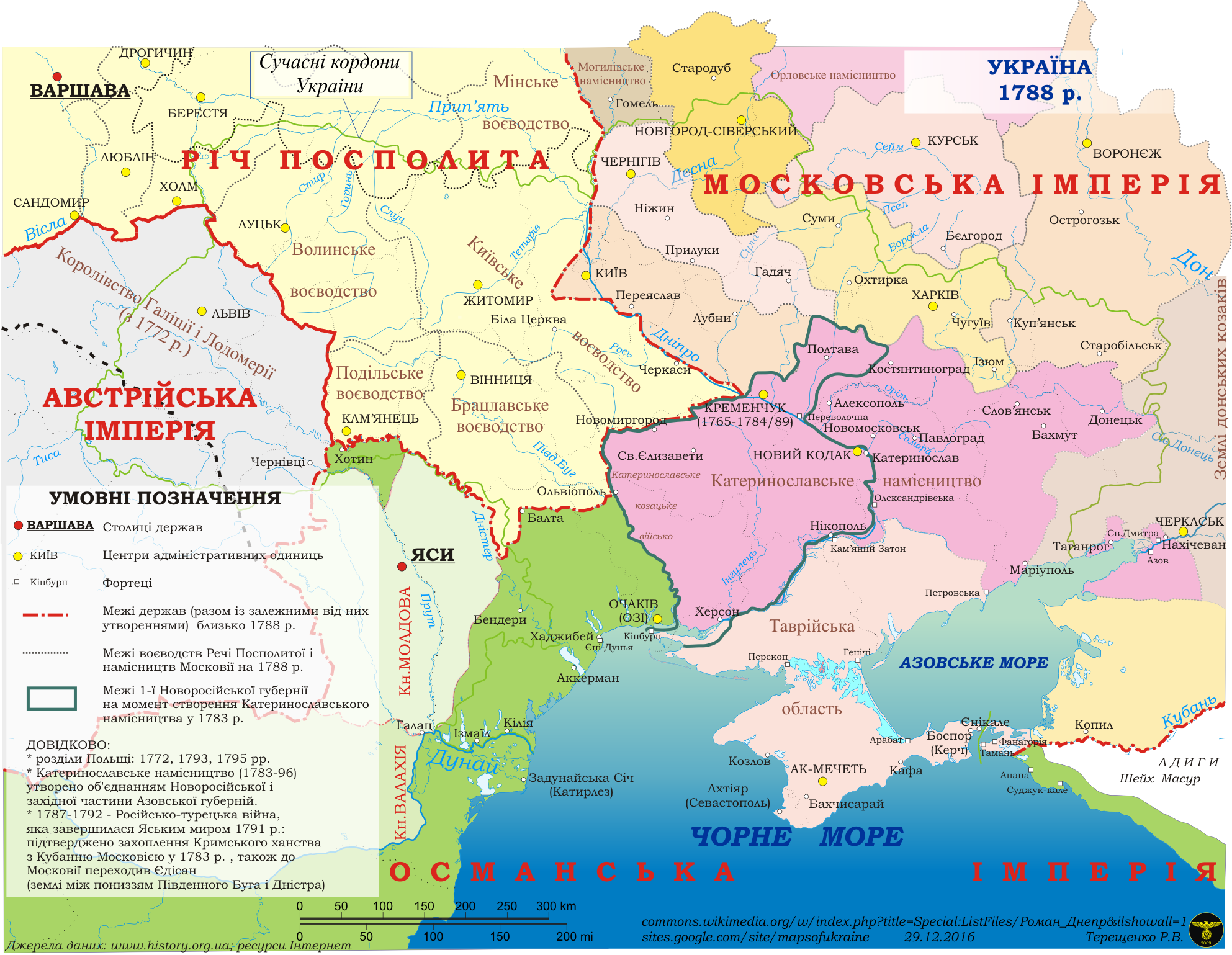 Lands of Ukraine in 1788. Katerinoslav vicegerency